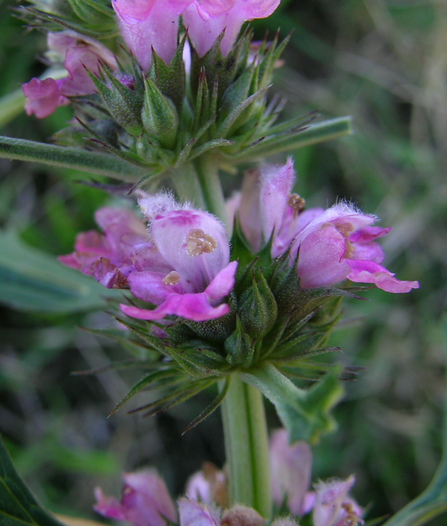 Introduced, cool-season, annual or short-lived perennial herb 50-150 cm tall. Lower leaves are 5-7 cm long, broadly ovate to triangular and lobed to deeply divided. Upper leaves are usually linear and shorter. Flowers are pink, mauve or white and to 10-15 mm long; occurring in dense un-stalked whorls at the upper nodes. Flowering is from winter to summer. A native of Asia and the Pacific, it is a weed of river flats, roadsides and other disturbed places; mostly south of the Bellinger Valley. An occasional minor weed of disturbed areas, which declines when ground cover increases. Control is usually not required.